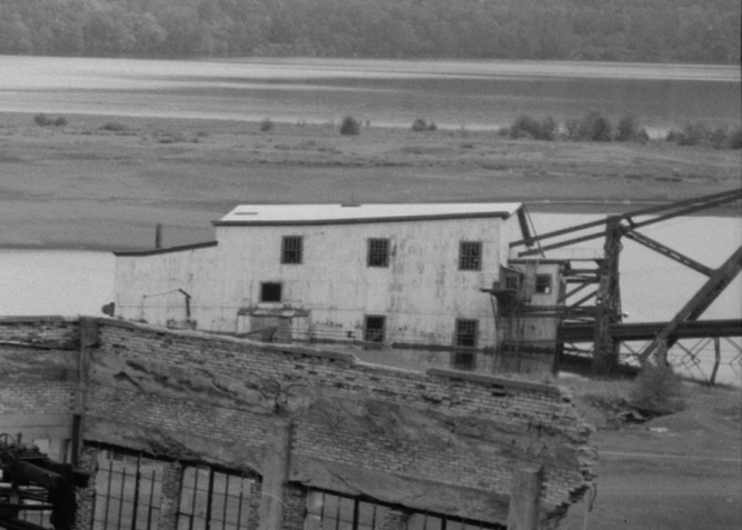 Quincy dredge no 2, near Mason in Houghton County MI.